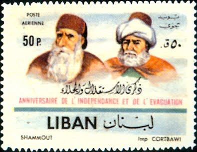 An Air Mail Stamp Issued by the Lebanese Government of 1961, Commemorating Lebanese Independence. It Shows Emirs Fakh ad-Din II (right) and Bashir Chehab II (left).